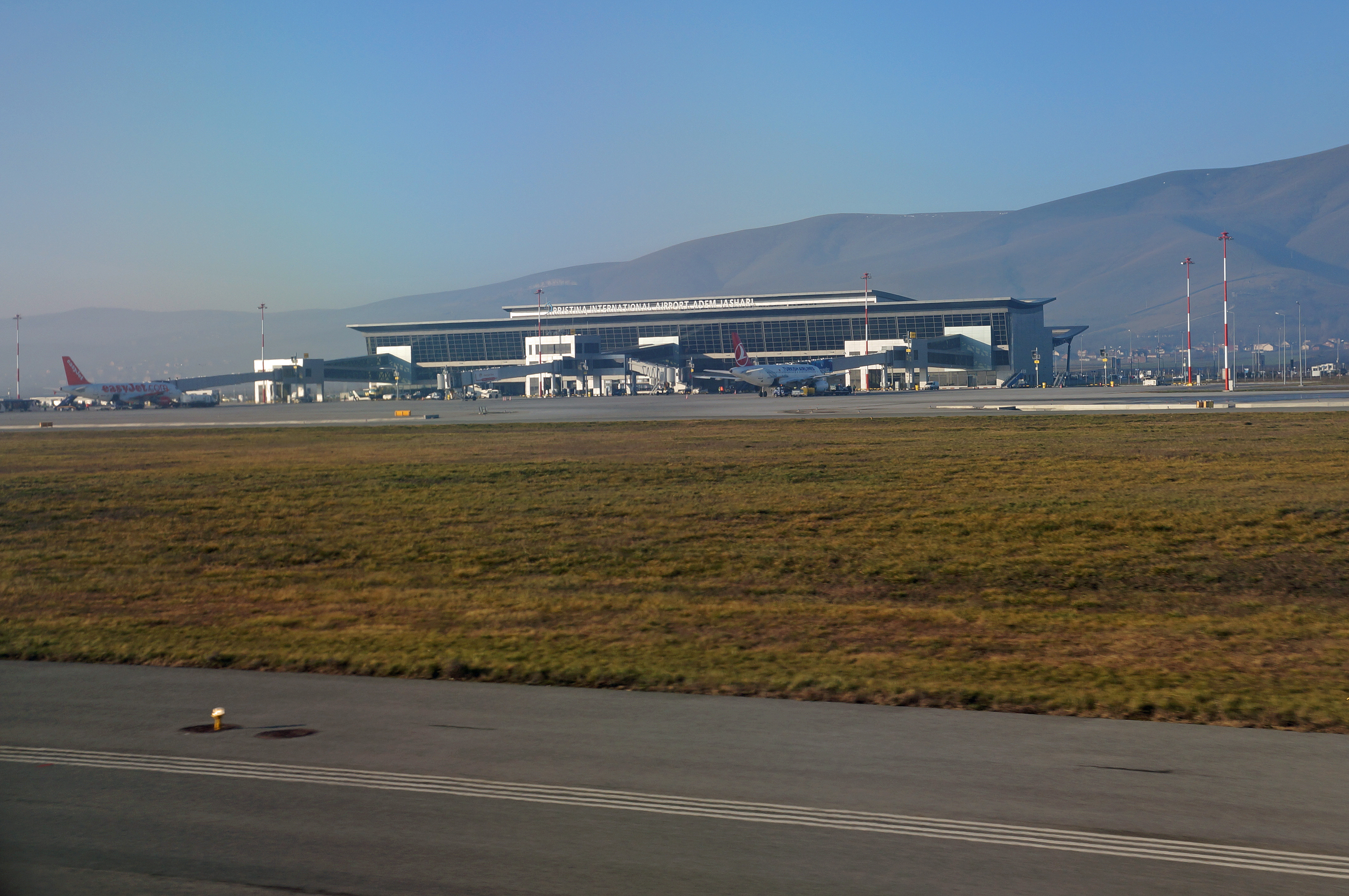 Prishtina Airport – new terminal building